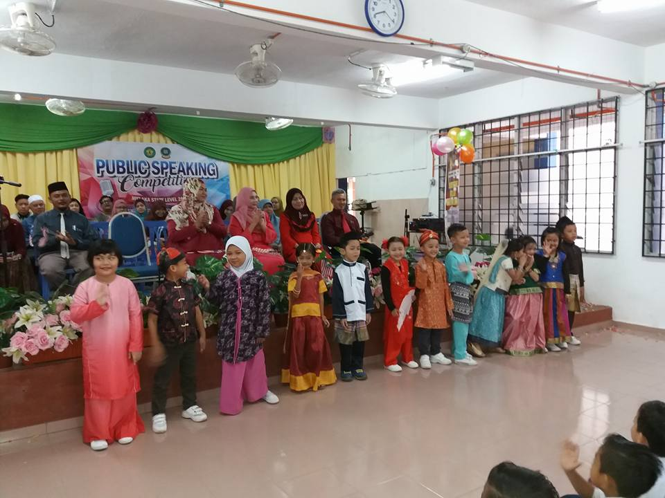 AKTIVITI MERDEKA